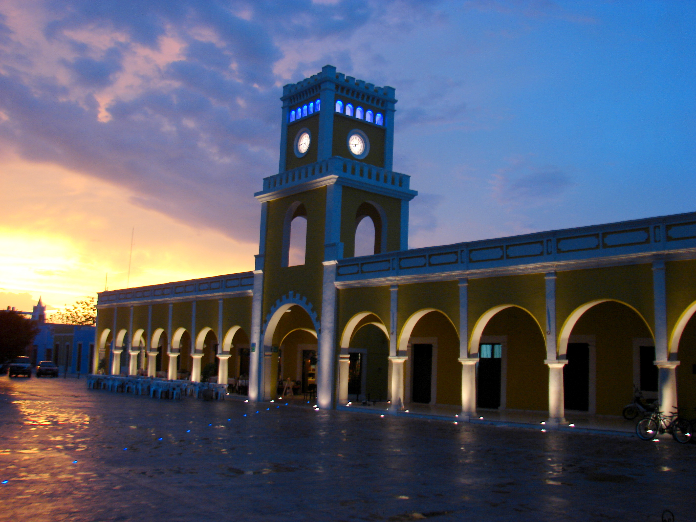 San Francisco's Portal — in the Barrio de San Francisco of San Francisco de Campeche. In Campeche state, southeastern México.